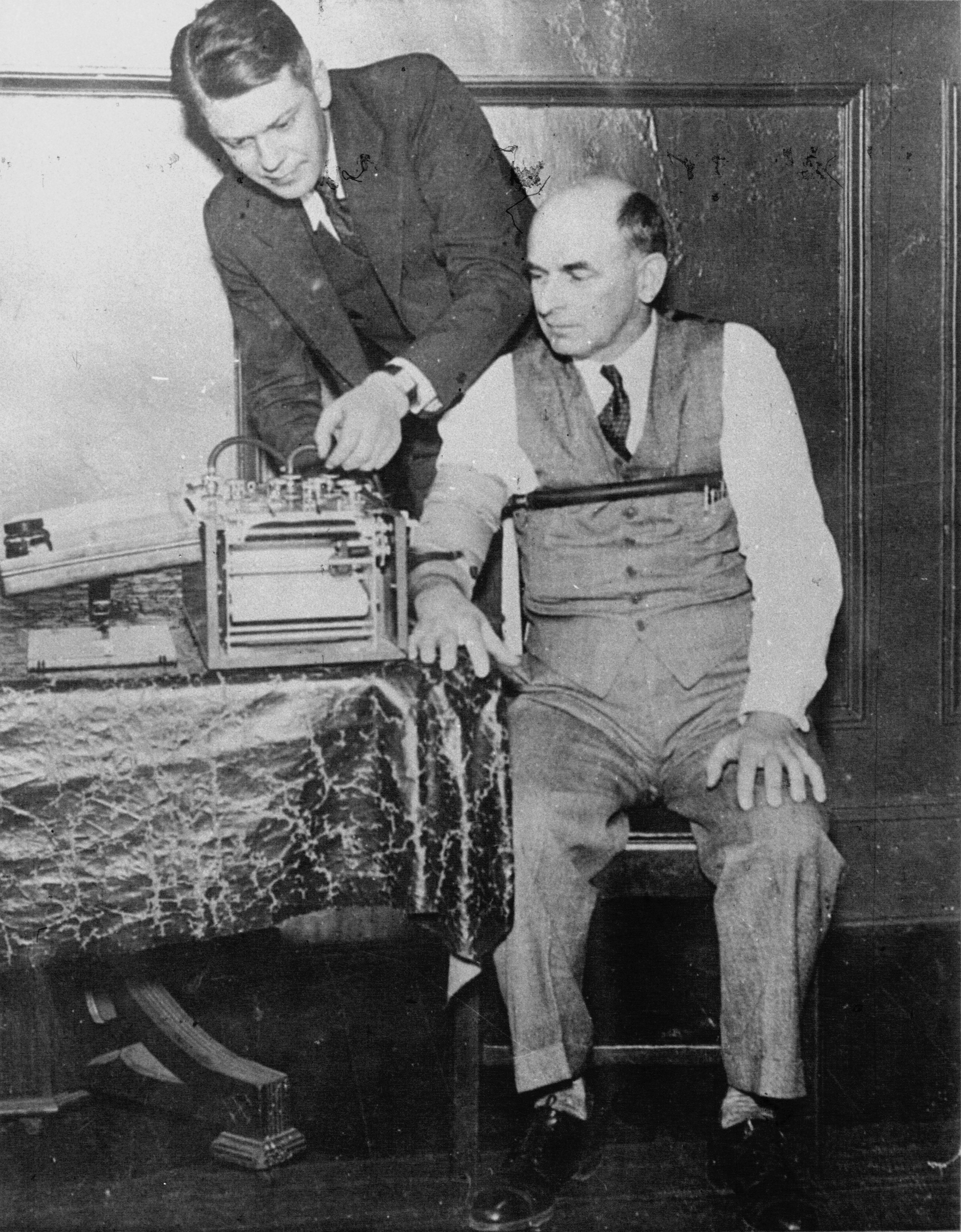 American inventor Leonarde Keeler (1903-1949) testing his lie-detector on Dr. Kohler, a former witness for the prosecution at the trial of Bruno Hauptmann.